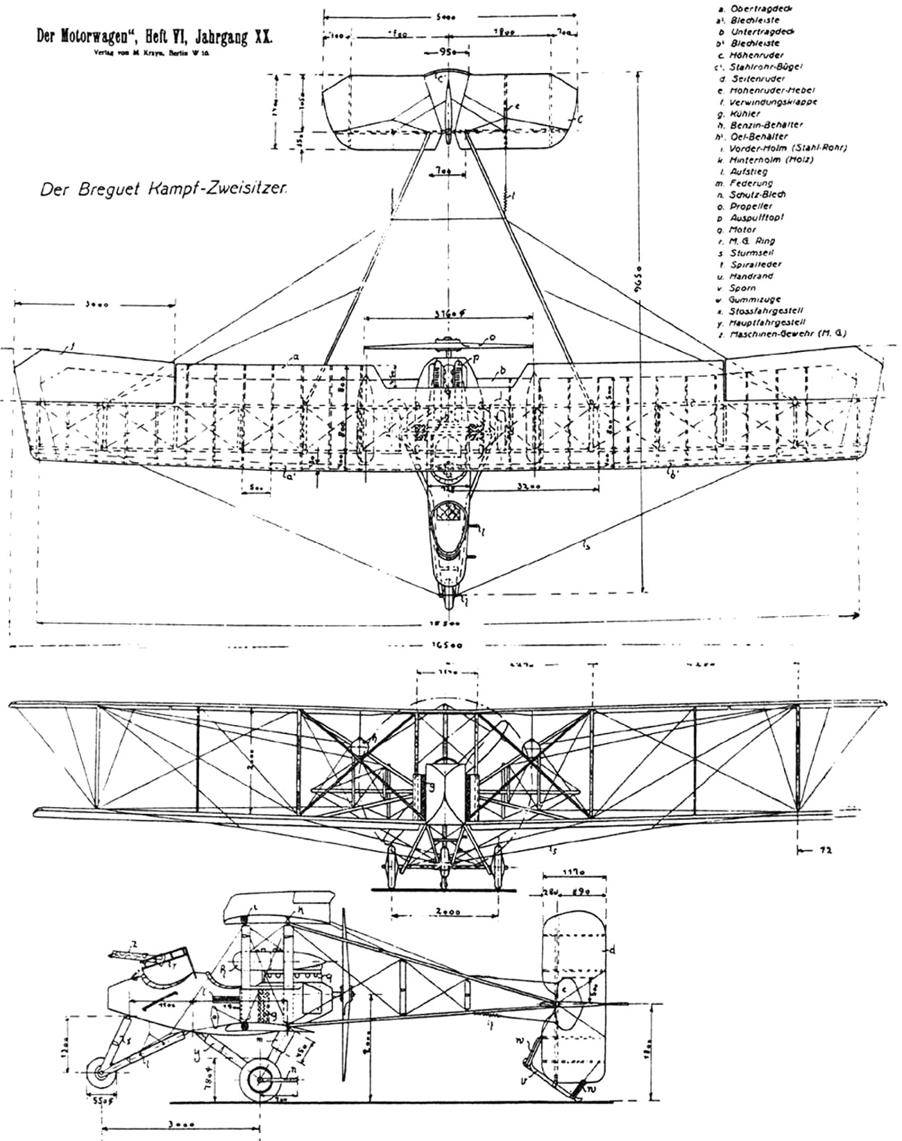 Breguet 5 biplane bomber